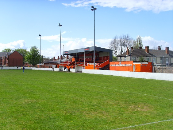 A photograph I took on 11th May 2013 of the Main stand at Bilston Town Football Club ahead of the game that day with Haughmond.